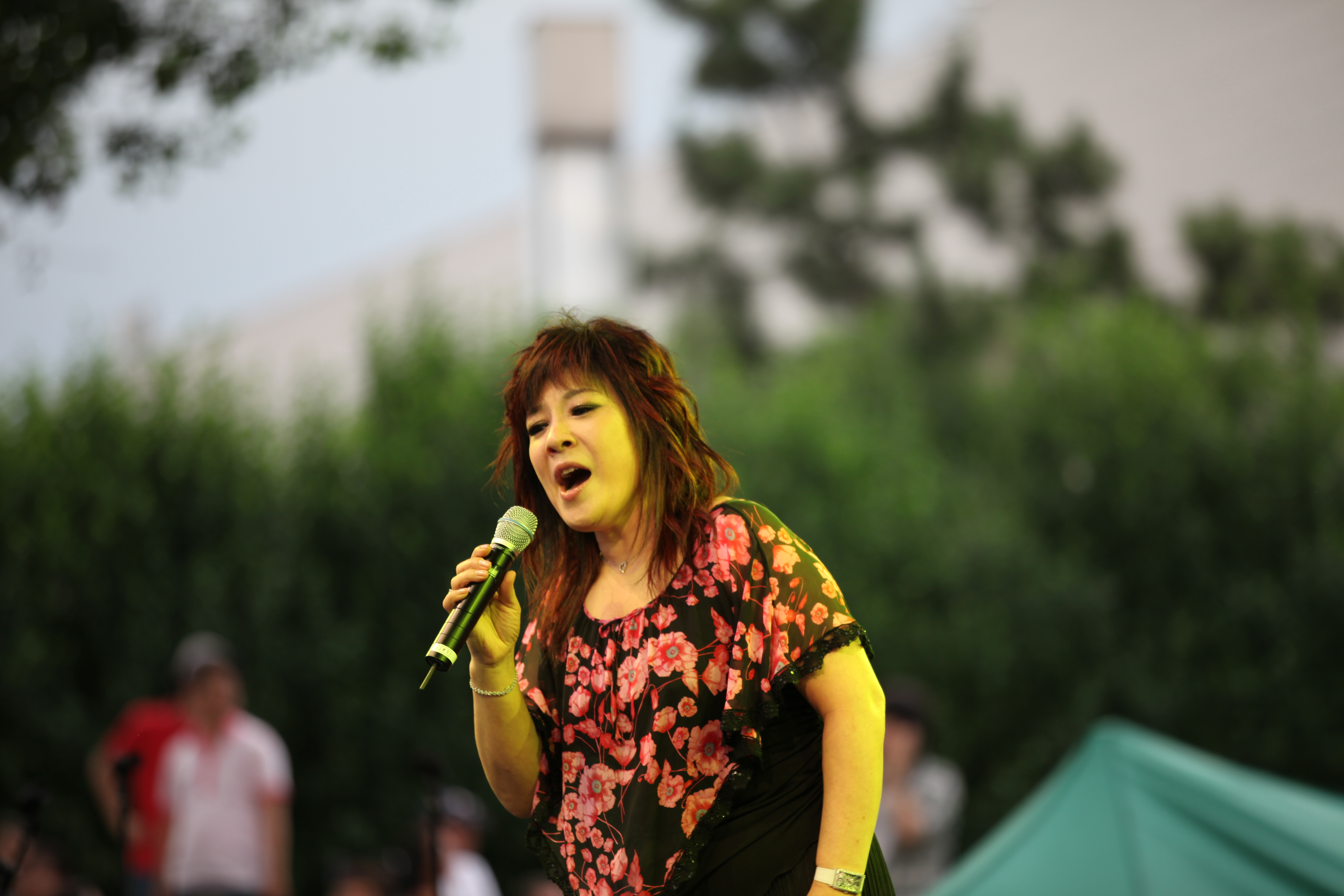 4 Jul 10 (216) South Korean Singer, Noh Sa-yeon